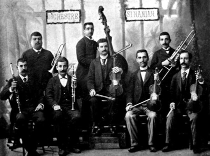 Sinanyan musical band, 1861-1896